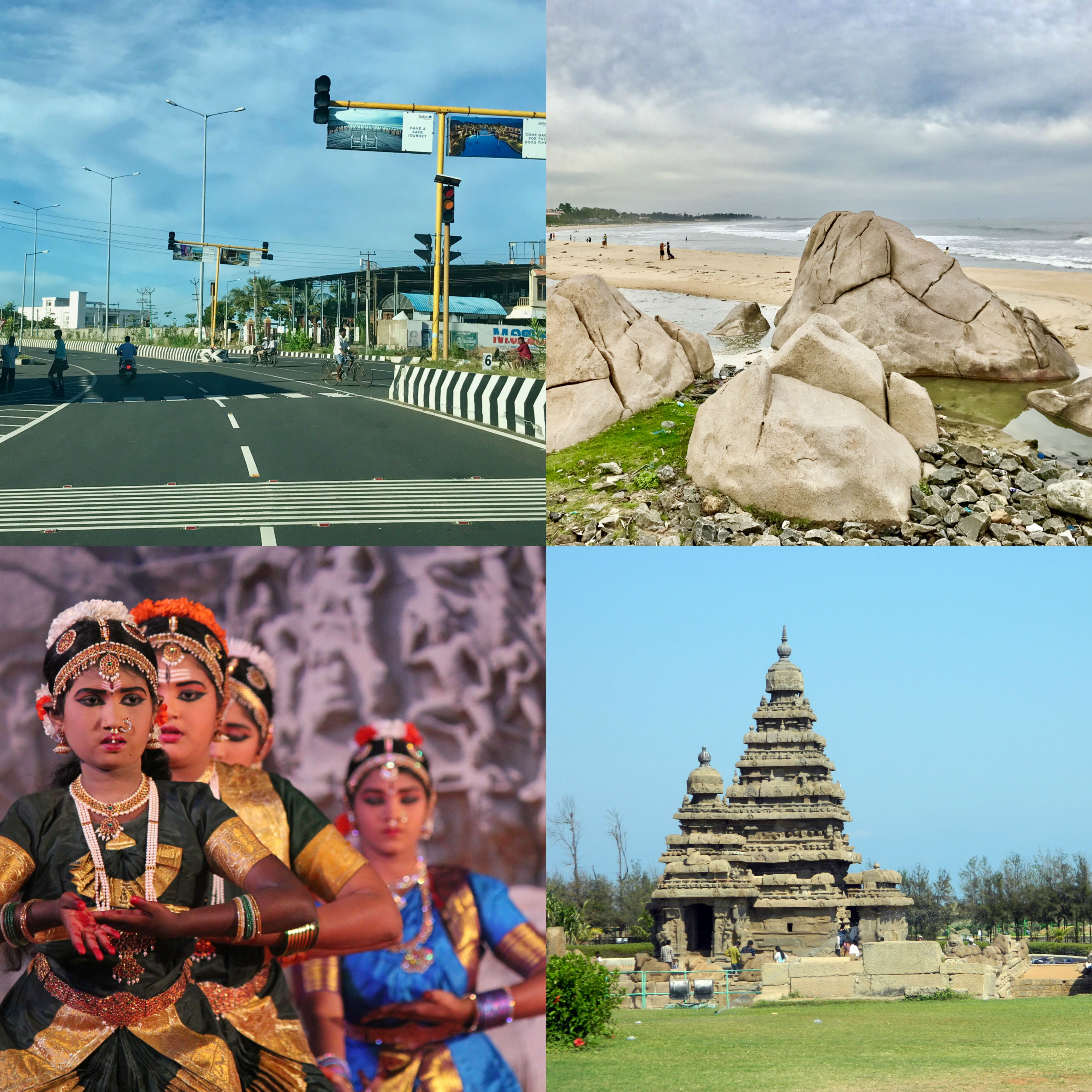 Derivative work on the following wikimedia files with creative commons license: 2017 four lane state highway SH 49 Tamil Nadu India 02.jpg Rocks on Mahabalipuram Beach.jpg Mamallapuram, Indian Dance Festival, Bharatanatyam dancers (9902423066).jpg Shore Temple TN.jpg